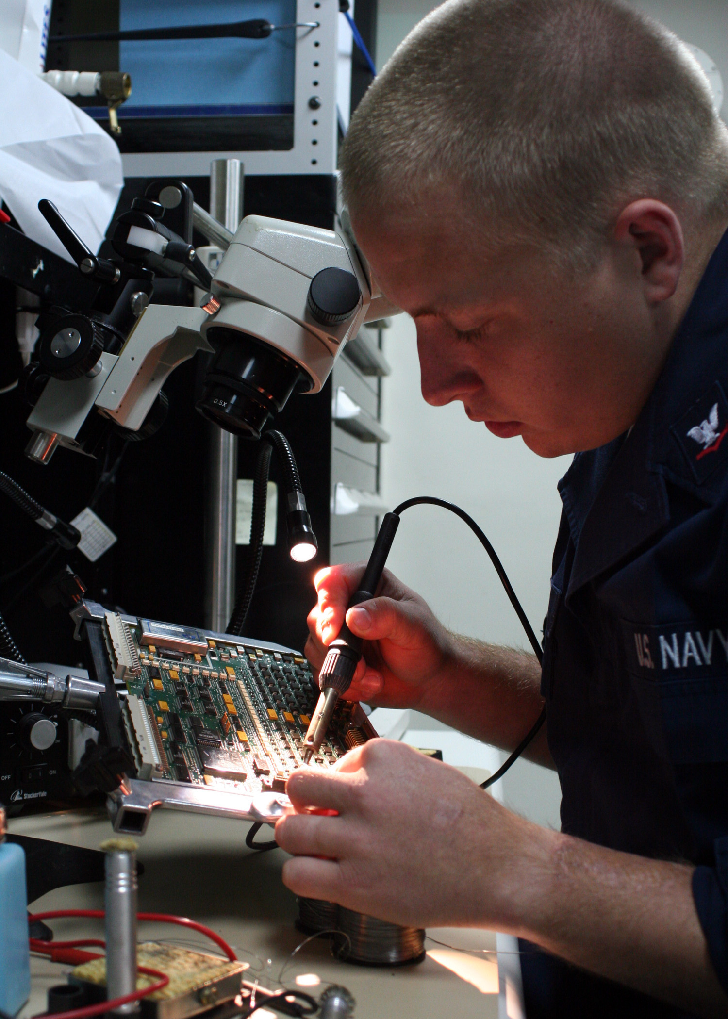 PERSIAN GULF (Dec. 1, 2008) Electronics Technician 3rd Class Scott Clark repairs a circuit board in the 2M shop aboard the amphibious transport dock ship USS San Antonio (LPD 17). San Antonio is deployed as part of the Iwo Jima Expeditionary Strike Group supporting maritime security operations in the U.S. 5th Fleet area of responsibility. (U.S. Navy photo by Mass Communication Specialist 3rd Class Brian Goodwin/Released)